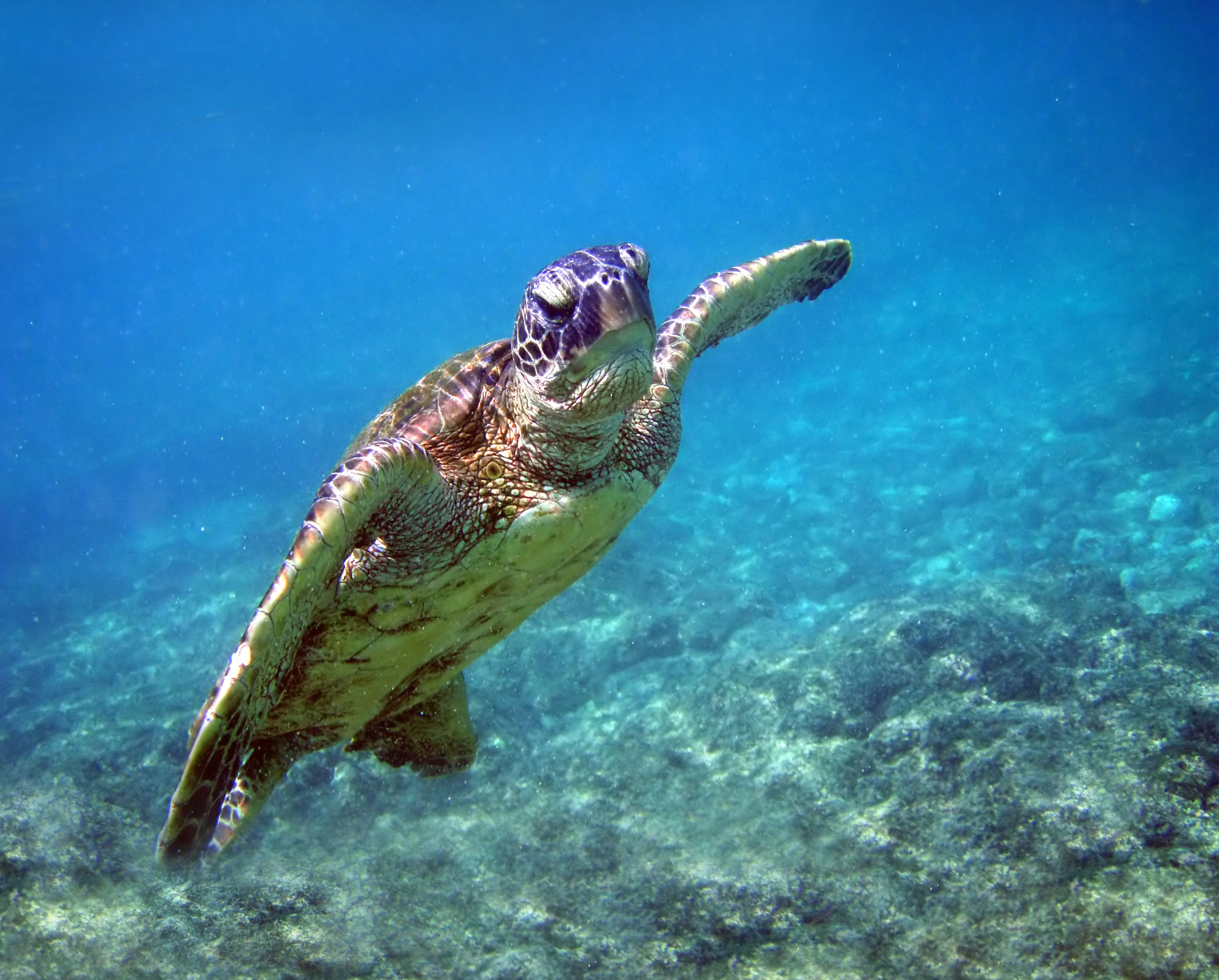 Green turtle, Chelonia mydas in Kona District, Hawaii